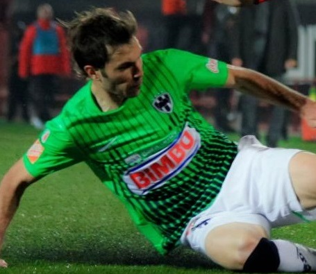 Monterrey player Jose Maria Basanta